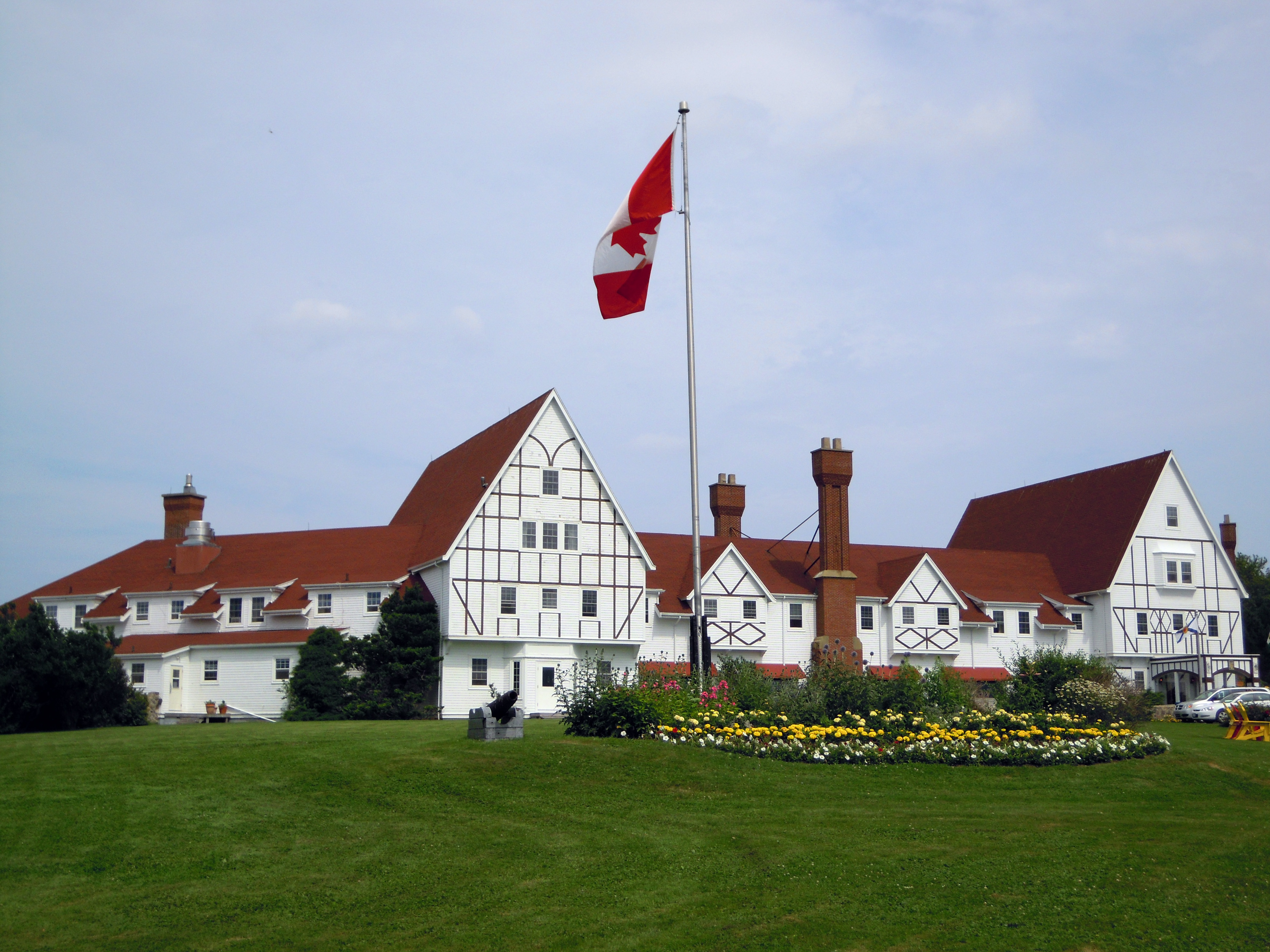 Keltic Lodge - the main lodge. Ingonsish, Nova Scotia, Canada.